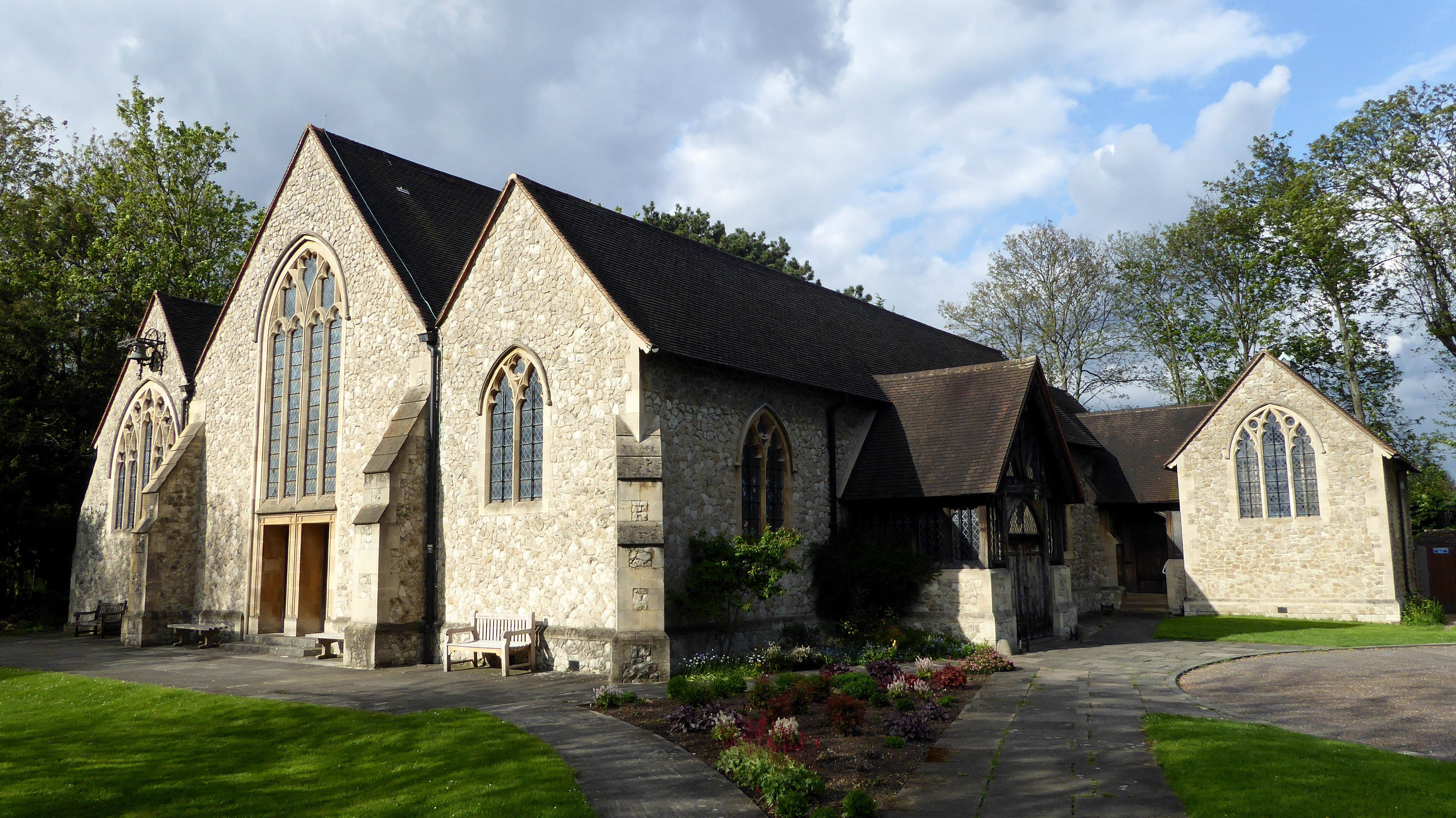 Holy Trinity Church, an Anglican church in Lamorbey, London Borough of Bexley